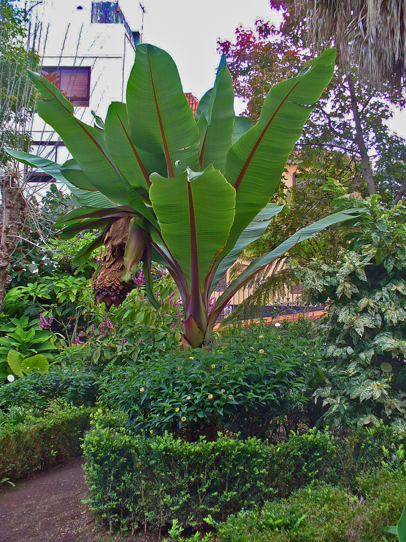 Ensete ventricosum, Musaceae, False Banana, Ethiopian Banana, Abyssinian Banana, habitus; Hijuela del Botanico, La Orotava, Tenerife, Spain.